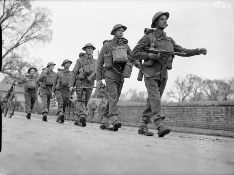 The British Army in the United Kingdom 1939-45 Men of the 5th Northamptonshire Regiment, 3rd Division, on the march during exercises near Christchurch in Dorset, 12 March 1941.